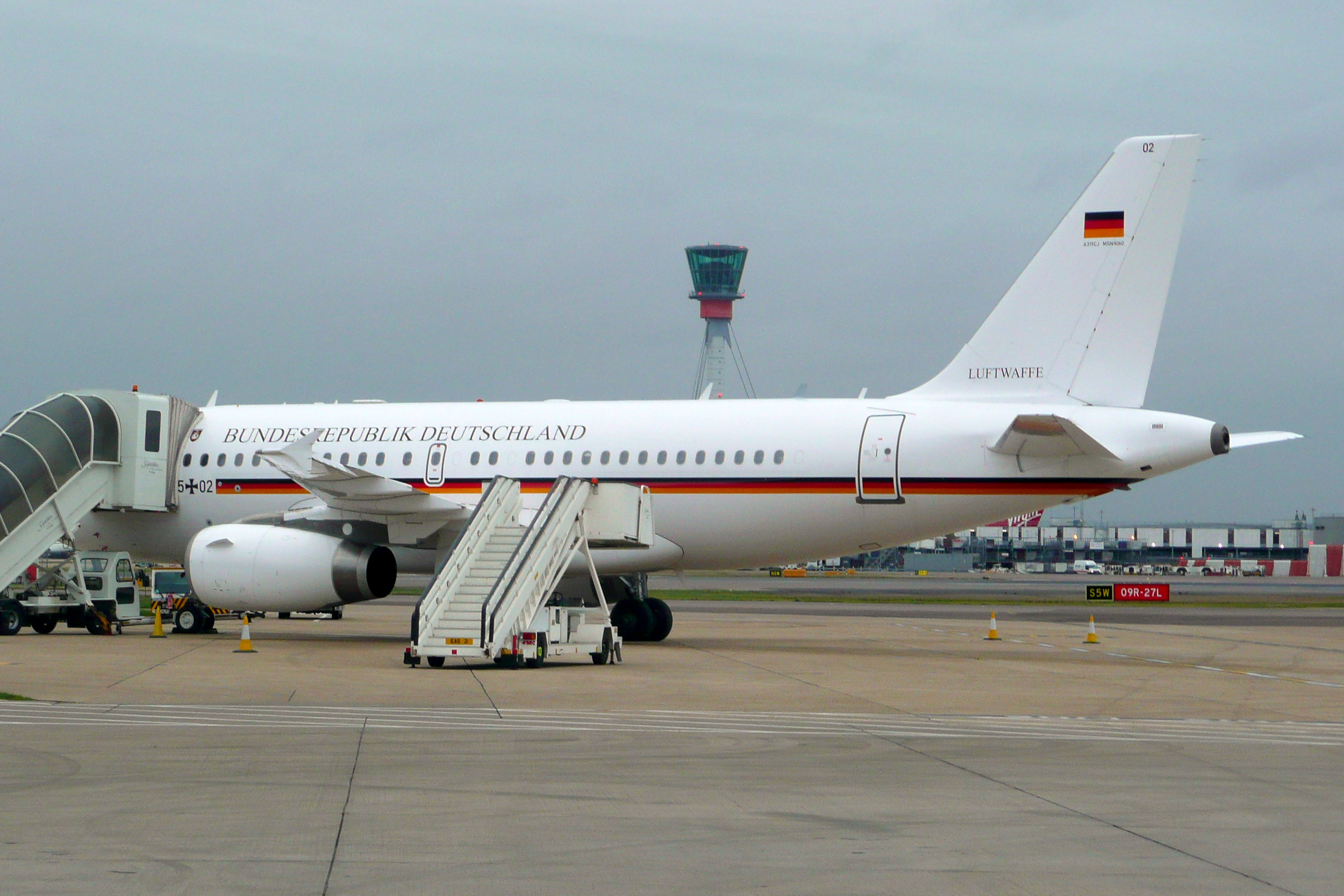 15+02 Airbus A319CJ German Air Force on RS1 having just brought in Angela Merkel the German Chancellor.